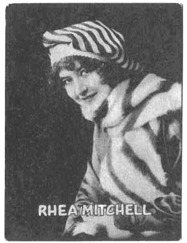 Rhea Mitchell - Susini y Bock Ovalados Tobacco Card